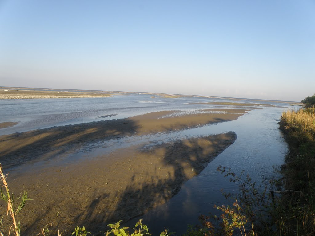 Landscape view of Loes River estuary, Liquica, Timor-Leste